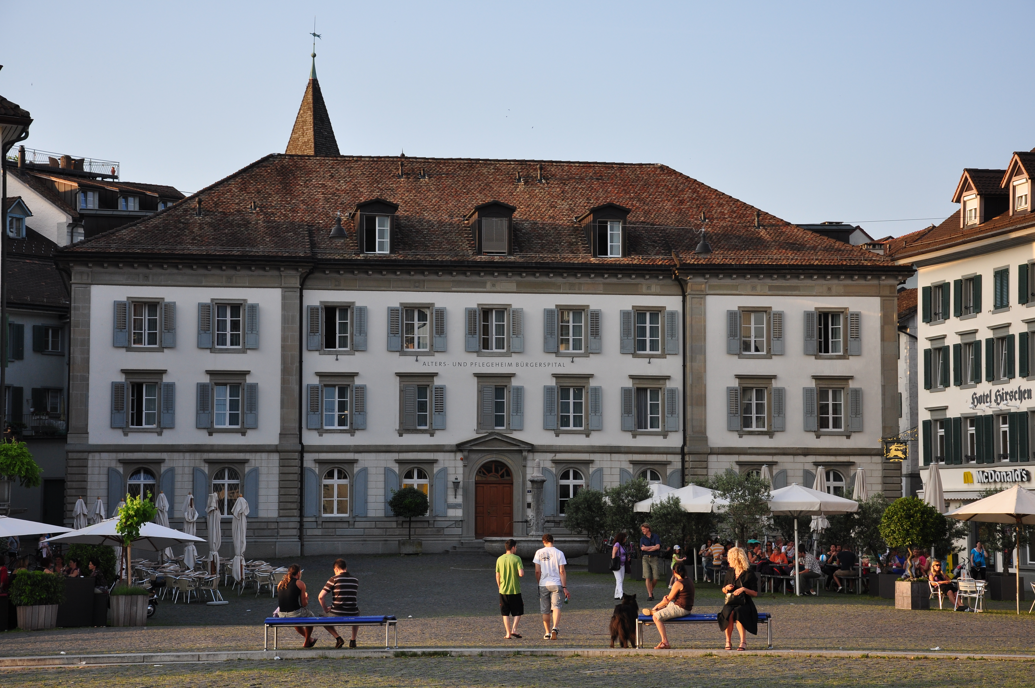 Rapperswil (SG) : The former Heiliggeist-Spital (1845, first mentioned in 13th Century) at Fischmarktplatz.